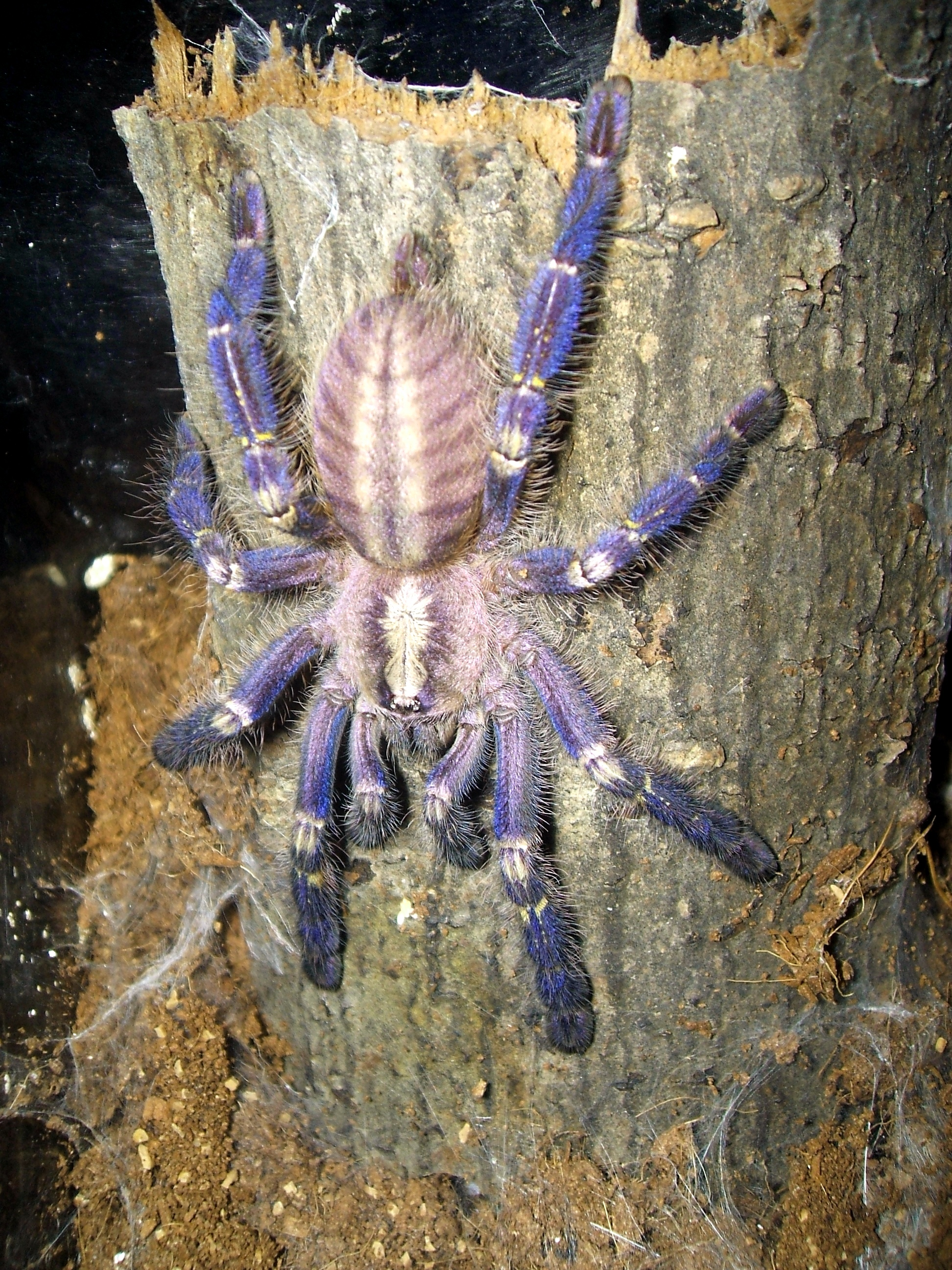 Picture of a juvenile female poecilotheria regalis.